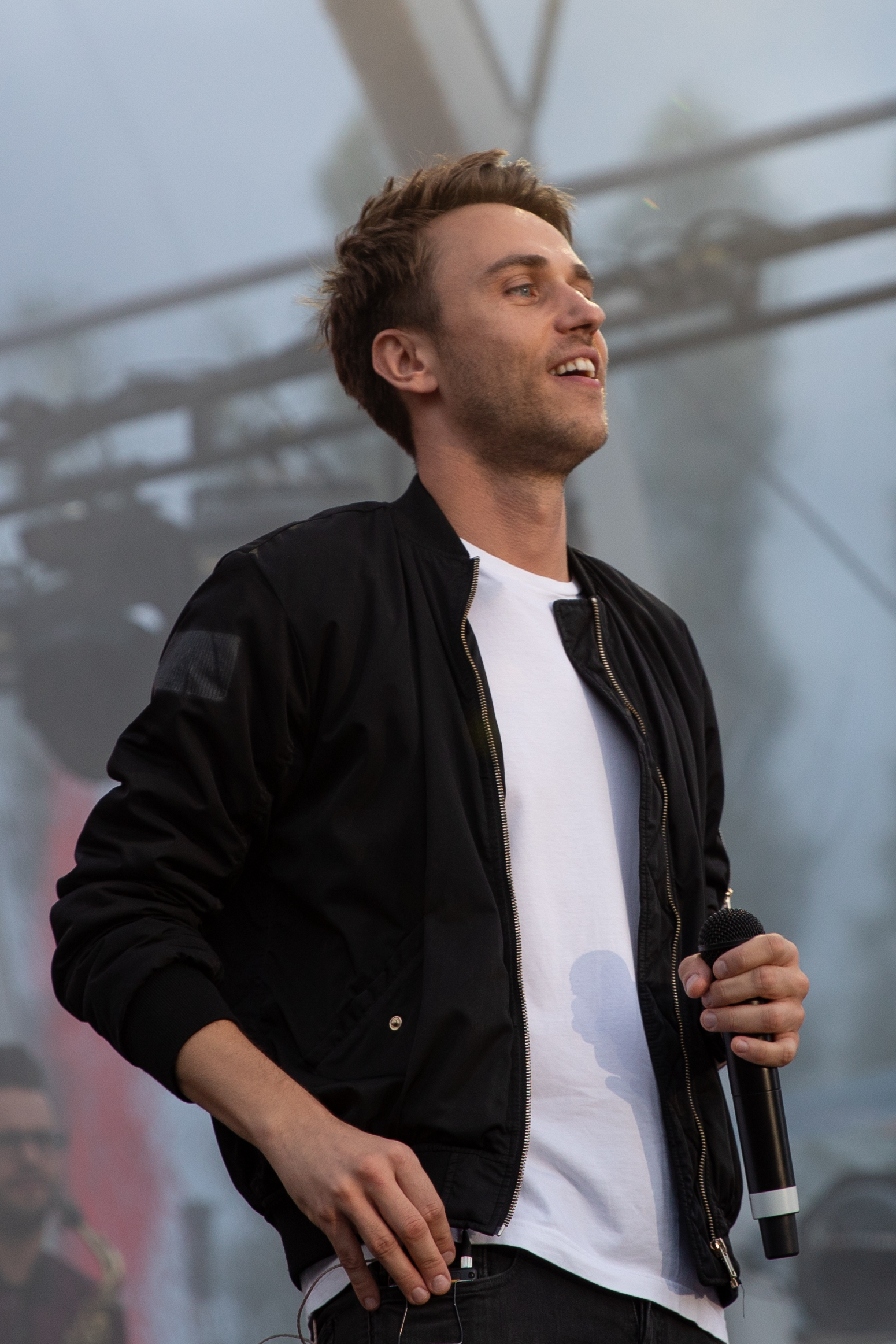 Clueso at Fritz DeutschPoeten 2018